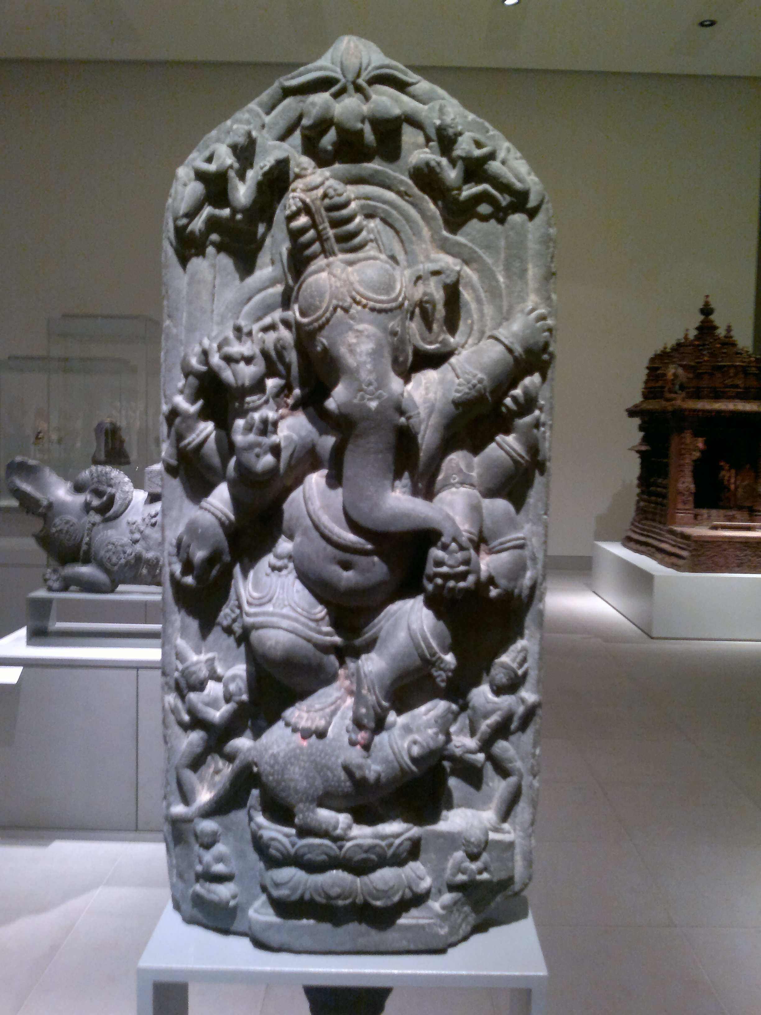 Sculpture of Ganesha in Berlin Museum.